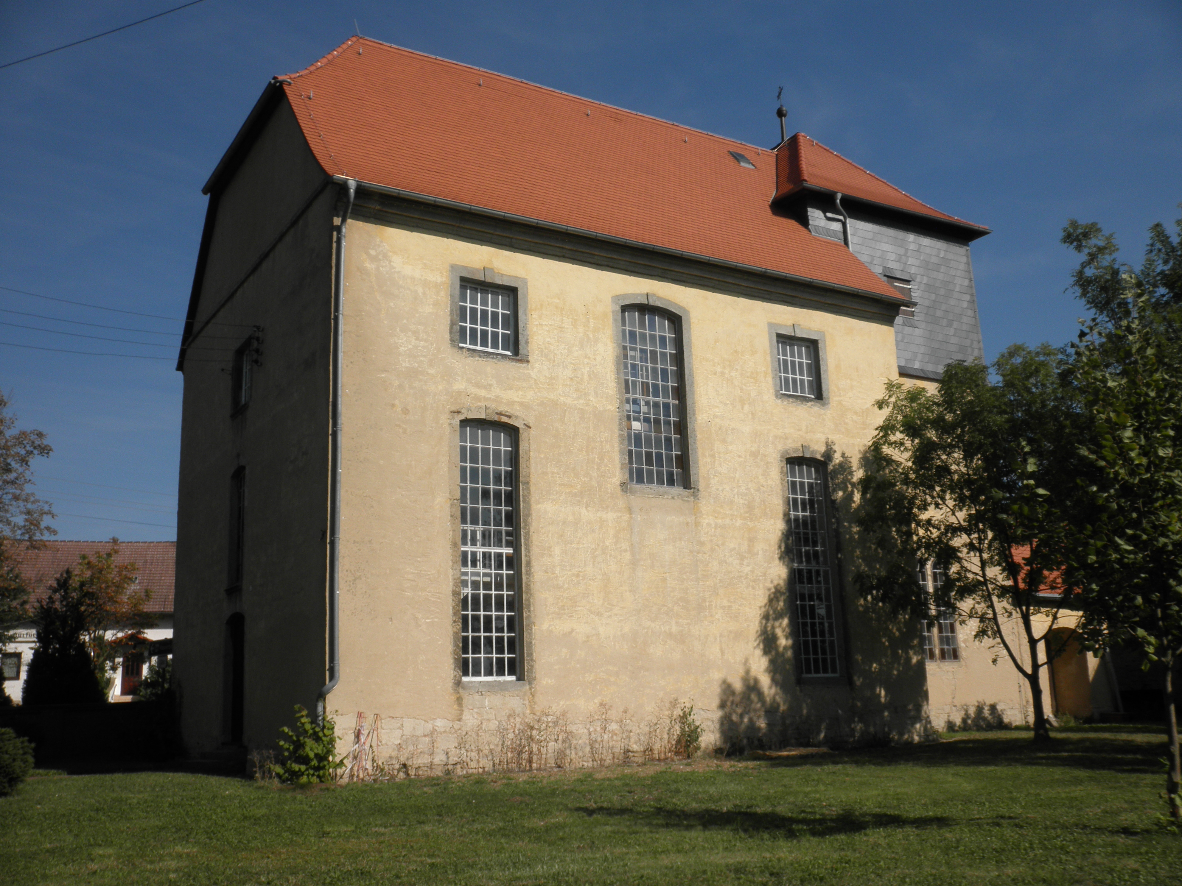 Church in Wetzdorf (Schkölen) in Thuringia